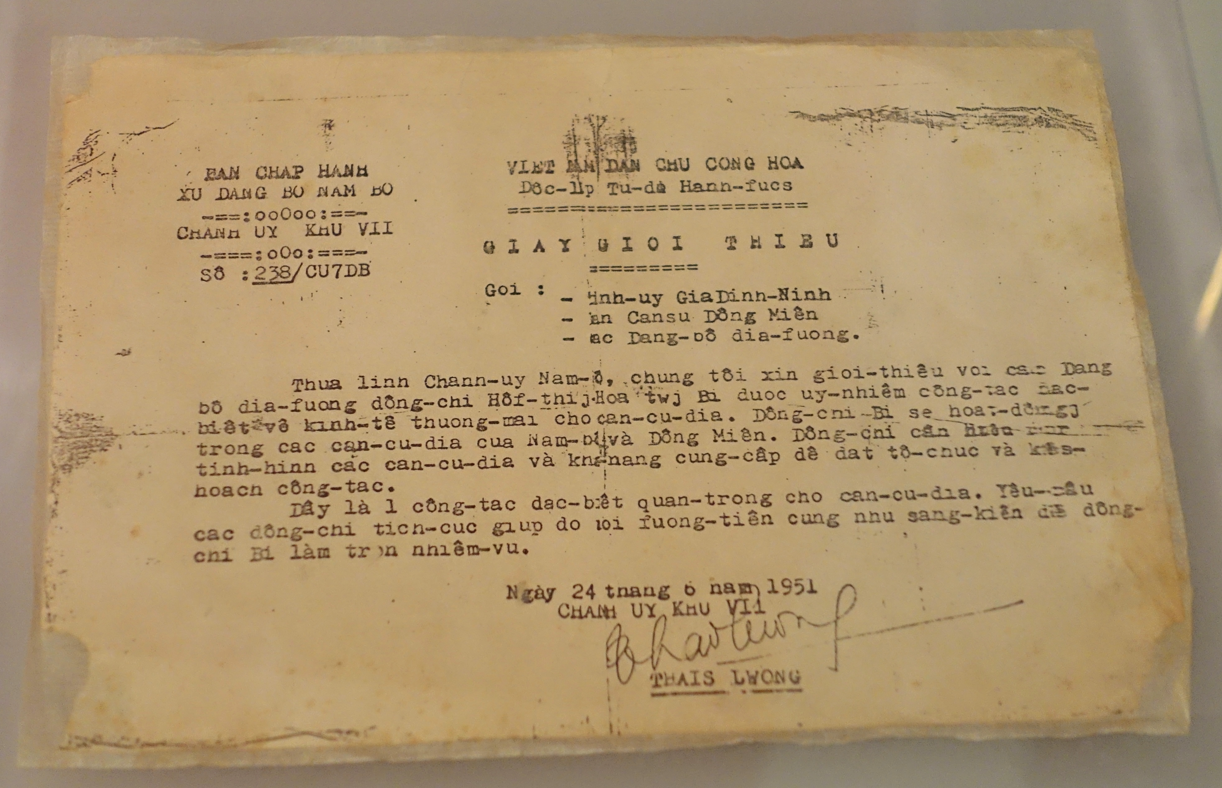 Exhibit in the Vietnamese Women's Museum, Hanoi, Vietnam.